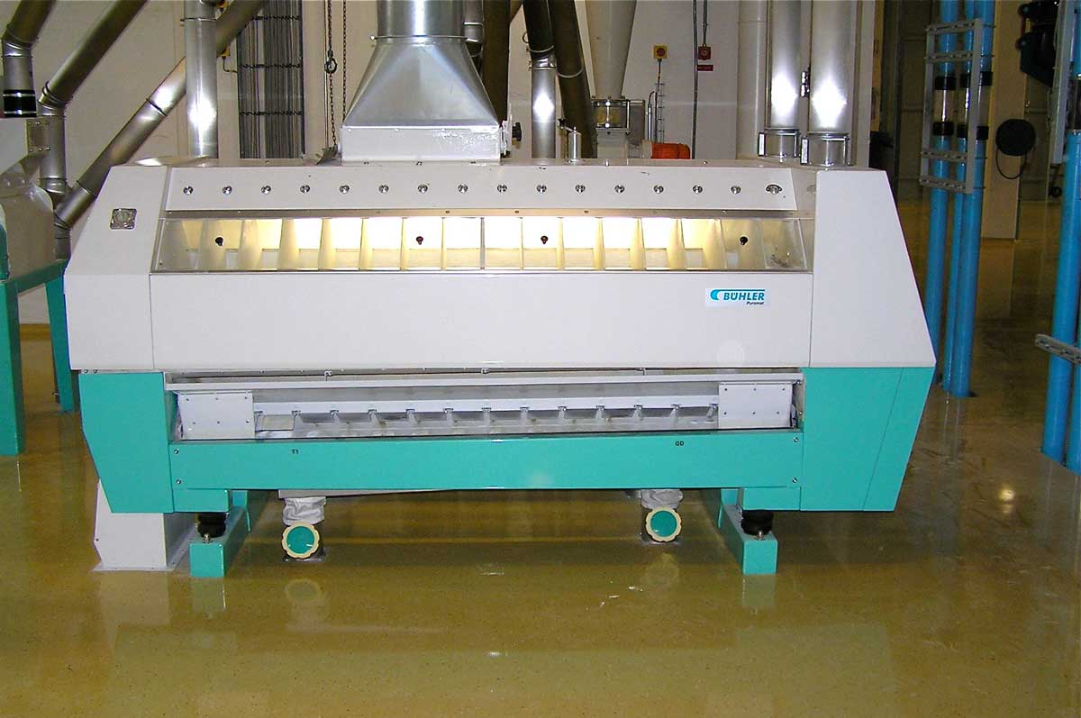 Purifier (Sifting of Semolina)